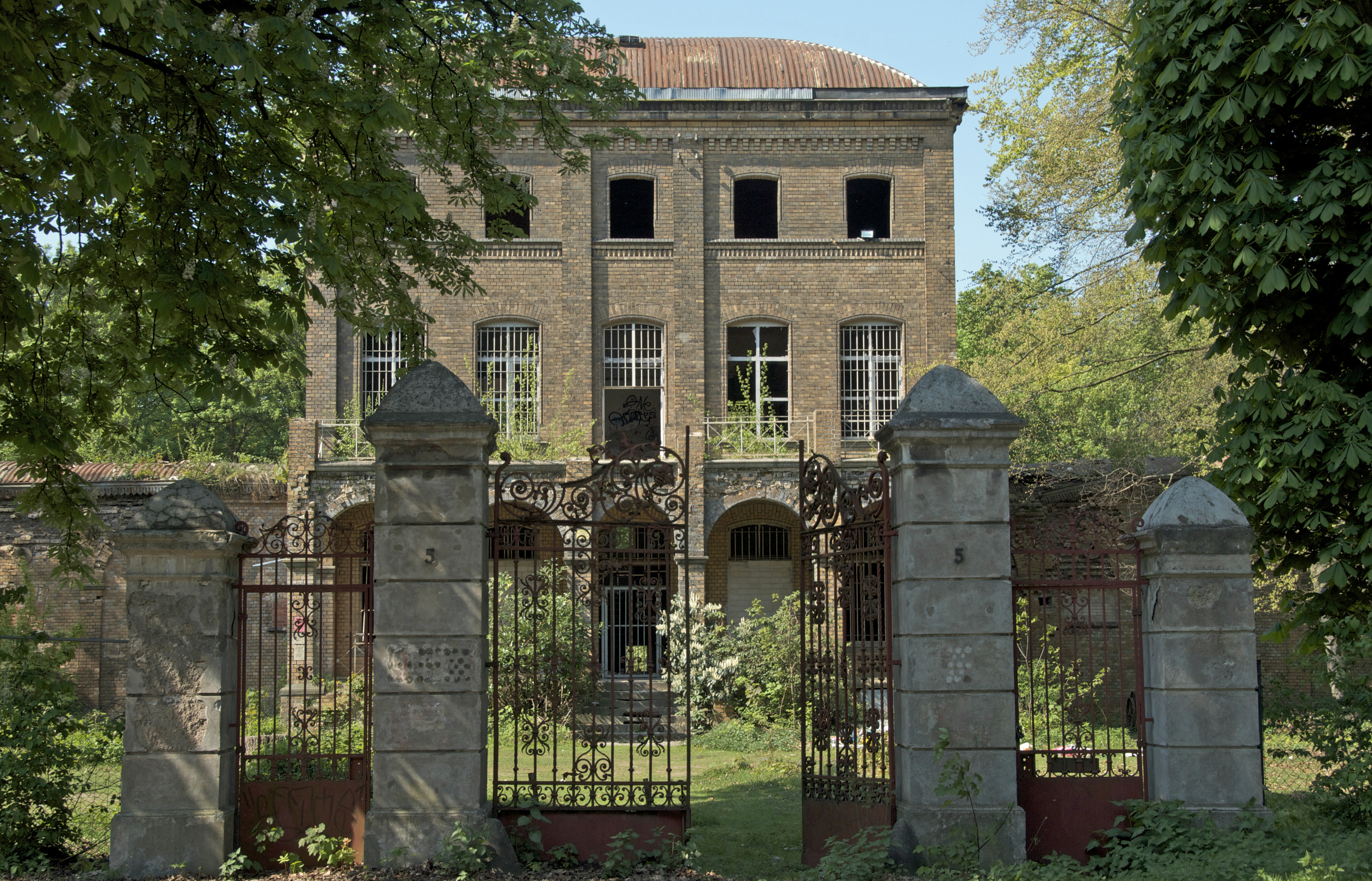 This is a photograph of an architectural monument.